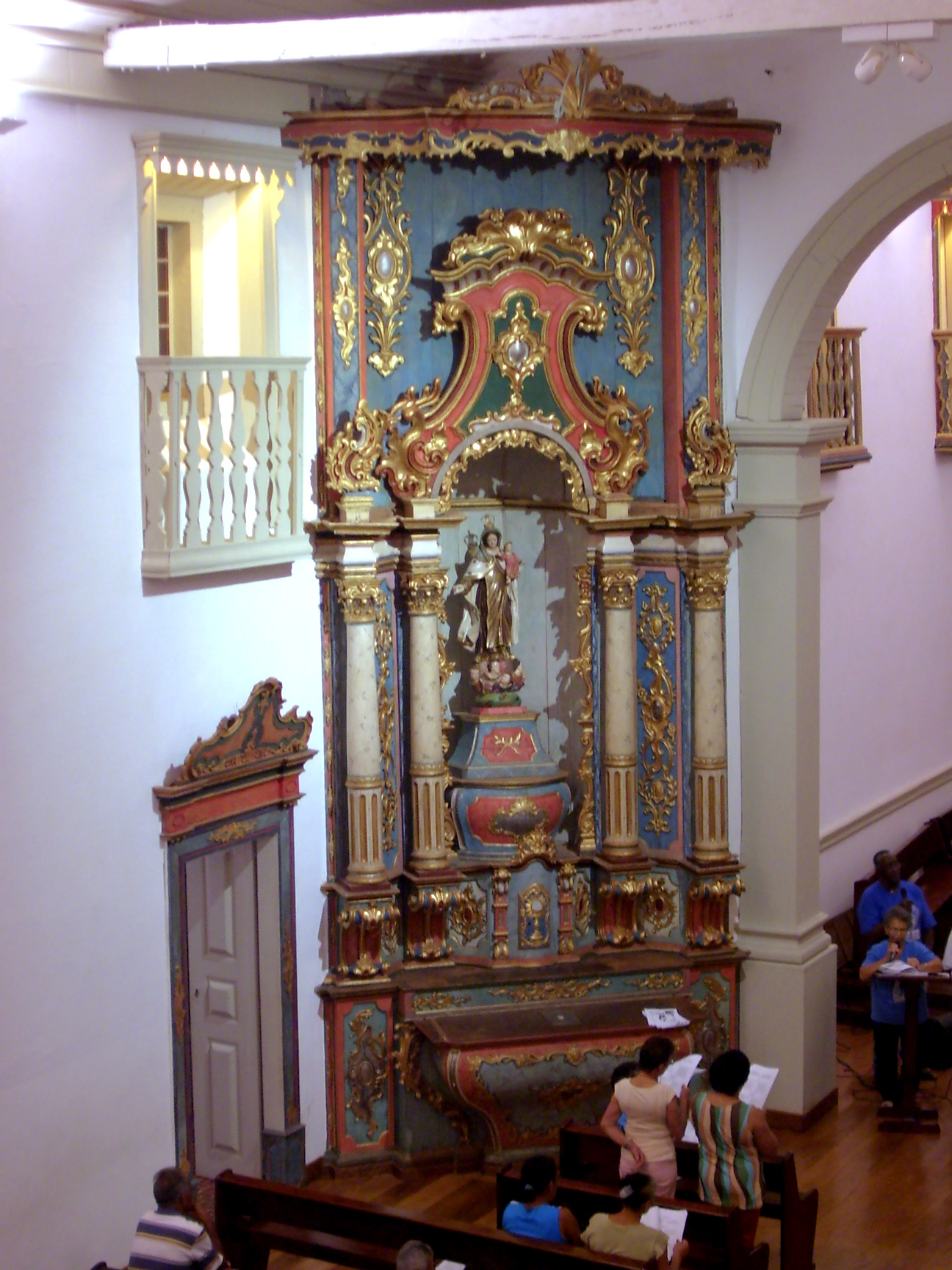 West altar in the Church Our Lady of the Rosary and the Saint Benedict, dedicated to Our Lady of Mount Carmel (the image in the niche), Cuiabá, Mato Grosso, Brazil.